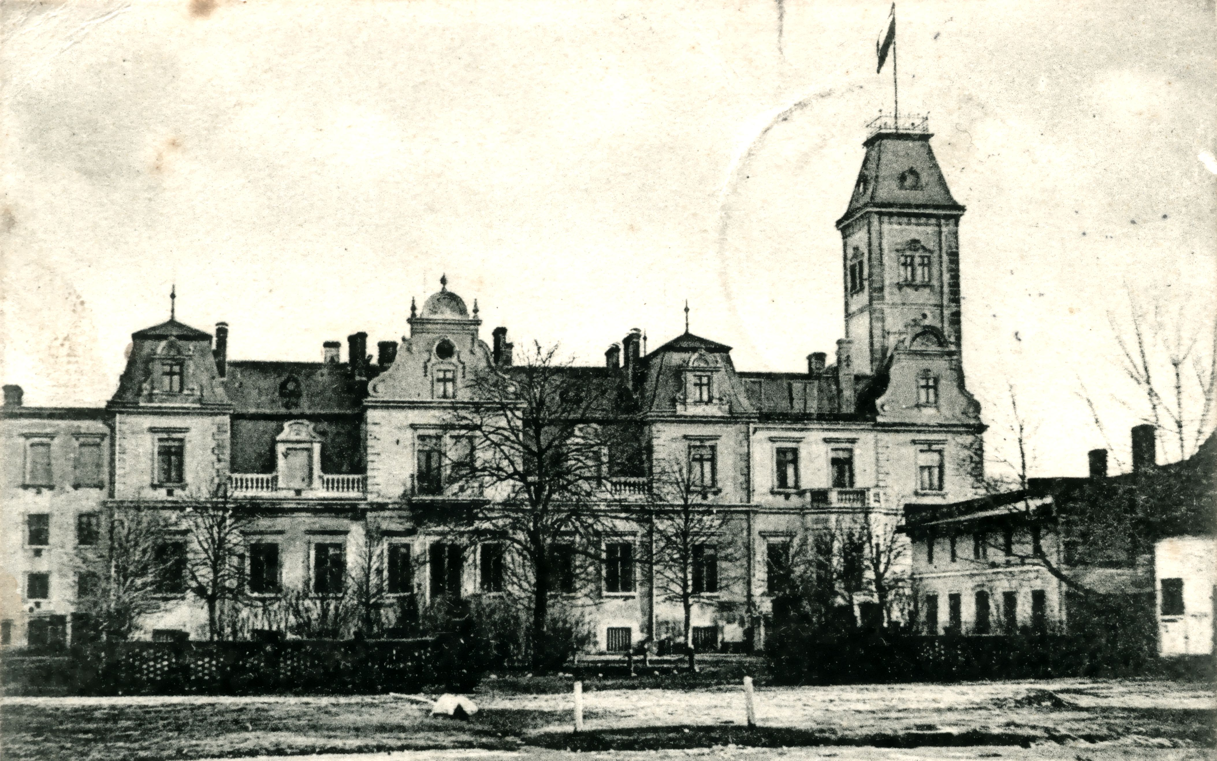 Castle Wulkow in Wulkow near Booßen, today borough of Lebus, Germany. Retouched photo from a picture postcard, dated 5 March 1904.